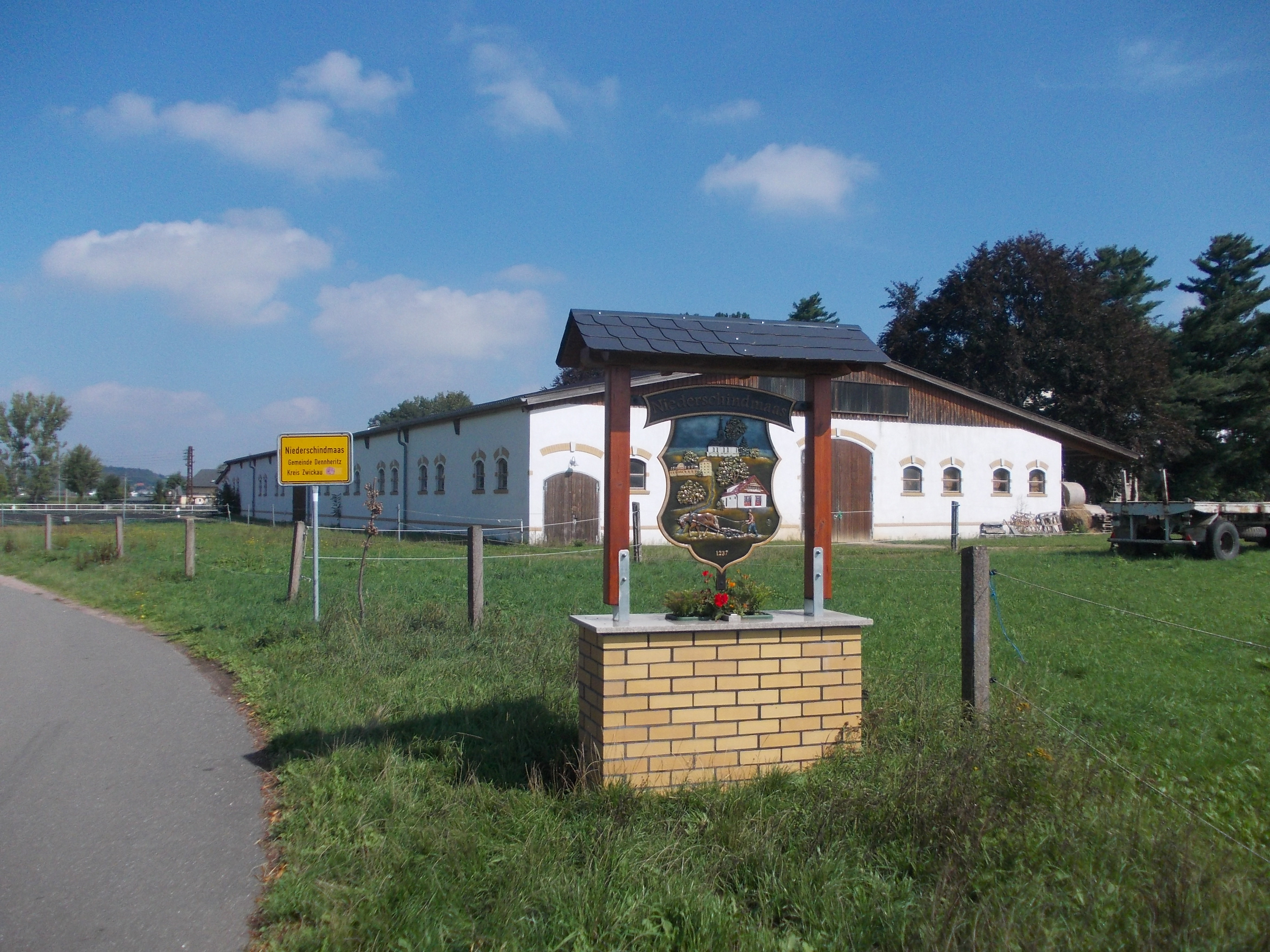 Entrance to the village of Niederschindmaas (Dennheritz, Zwickau district, Saxony)